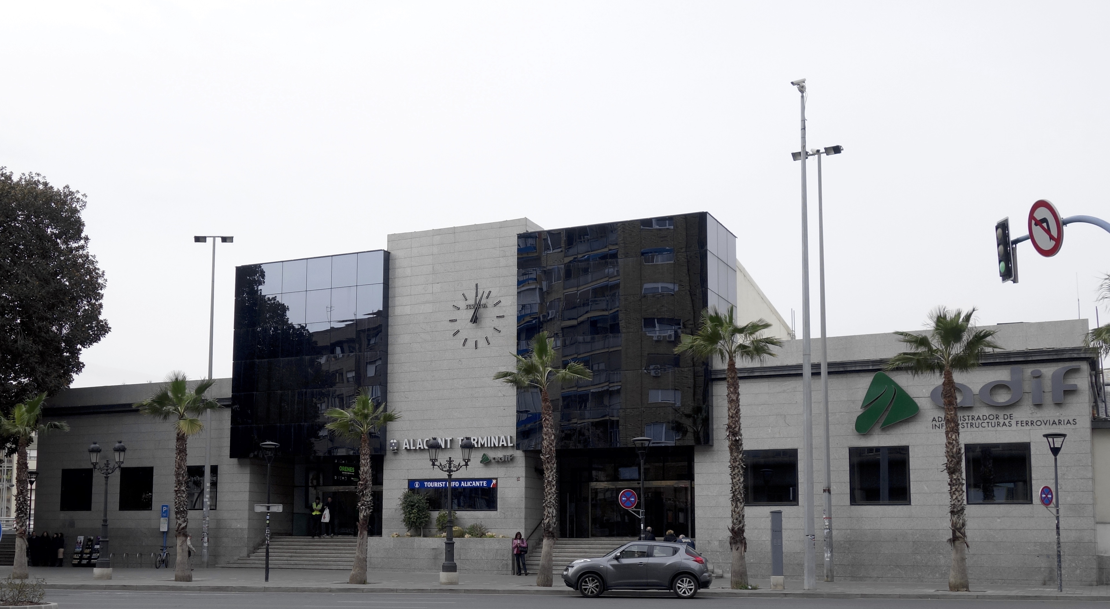 Alicante-Terminal railway station